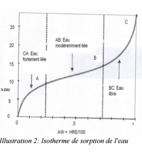 Isotherm of water